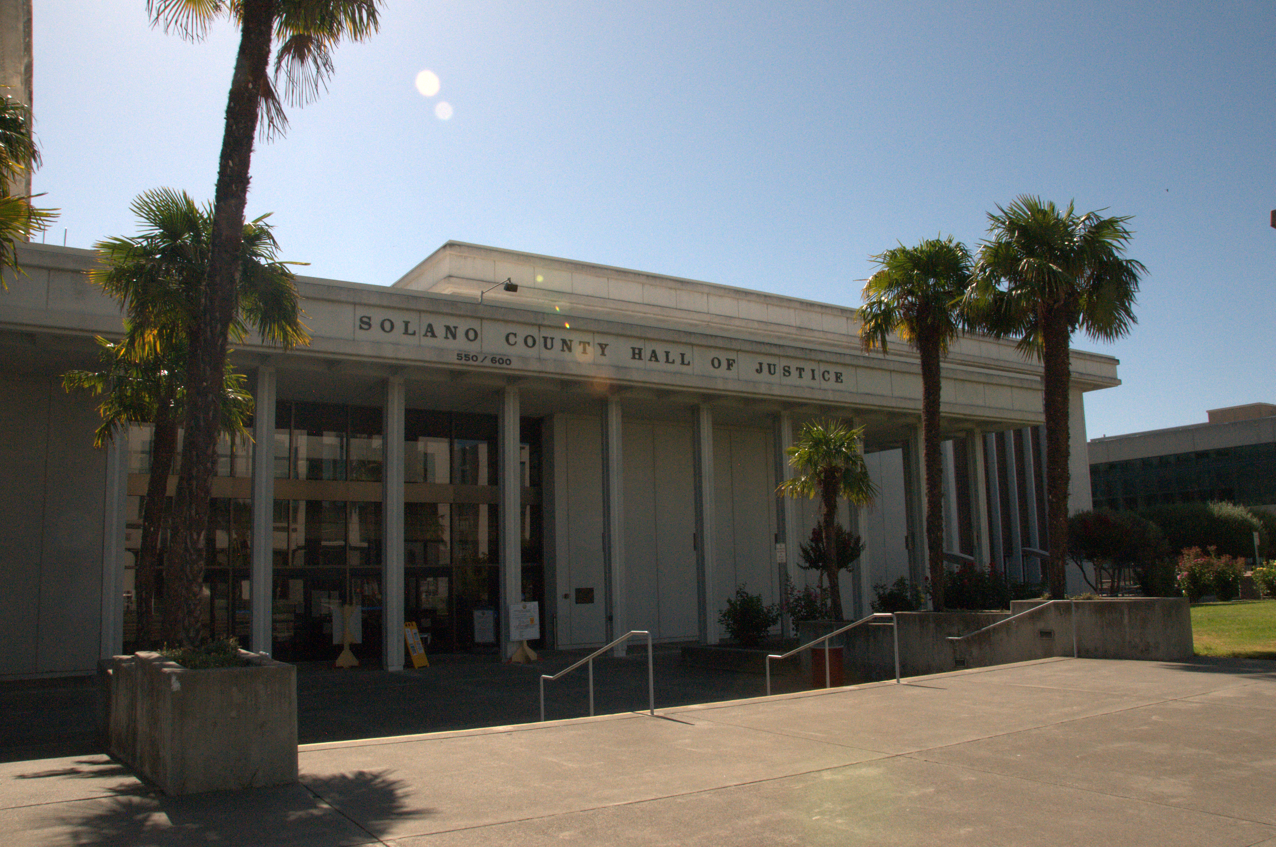 Front entrance to complex, visible from Union Ave.